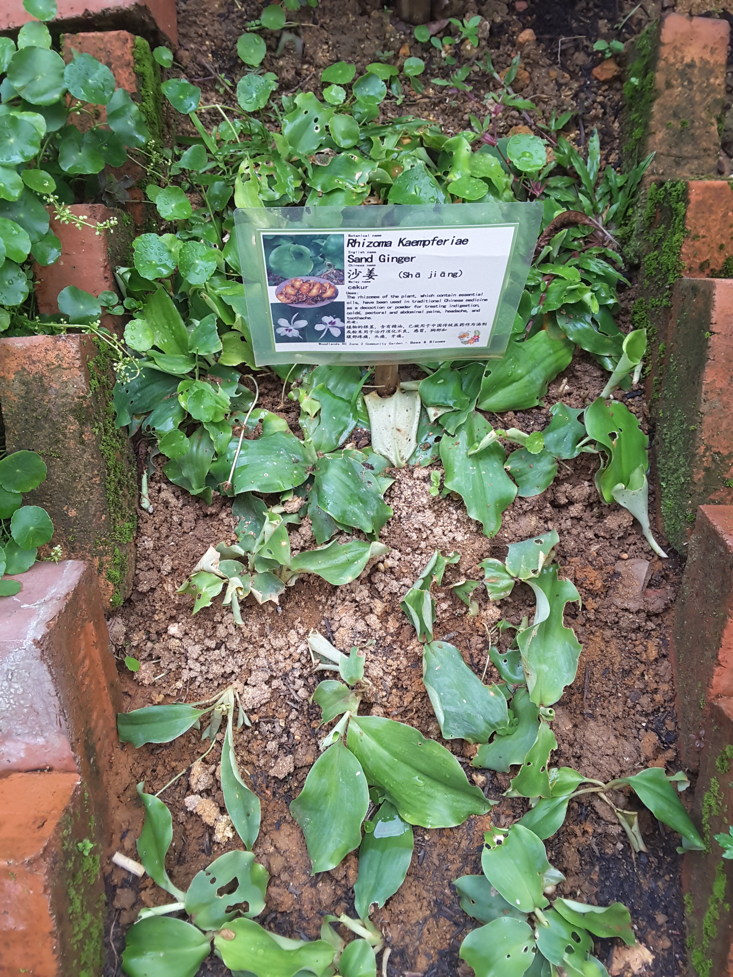 Sand Ginger